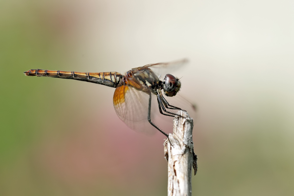 Violet Dropwing, female - Turkey - Mugla Province - Köycegiz